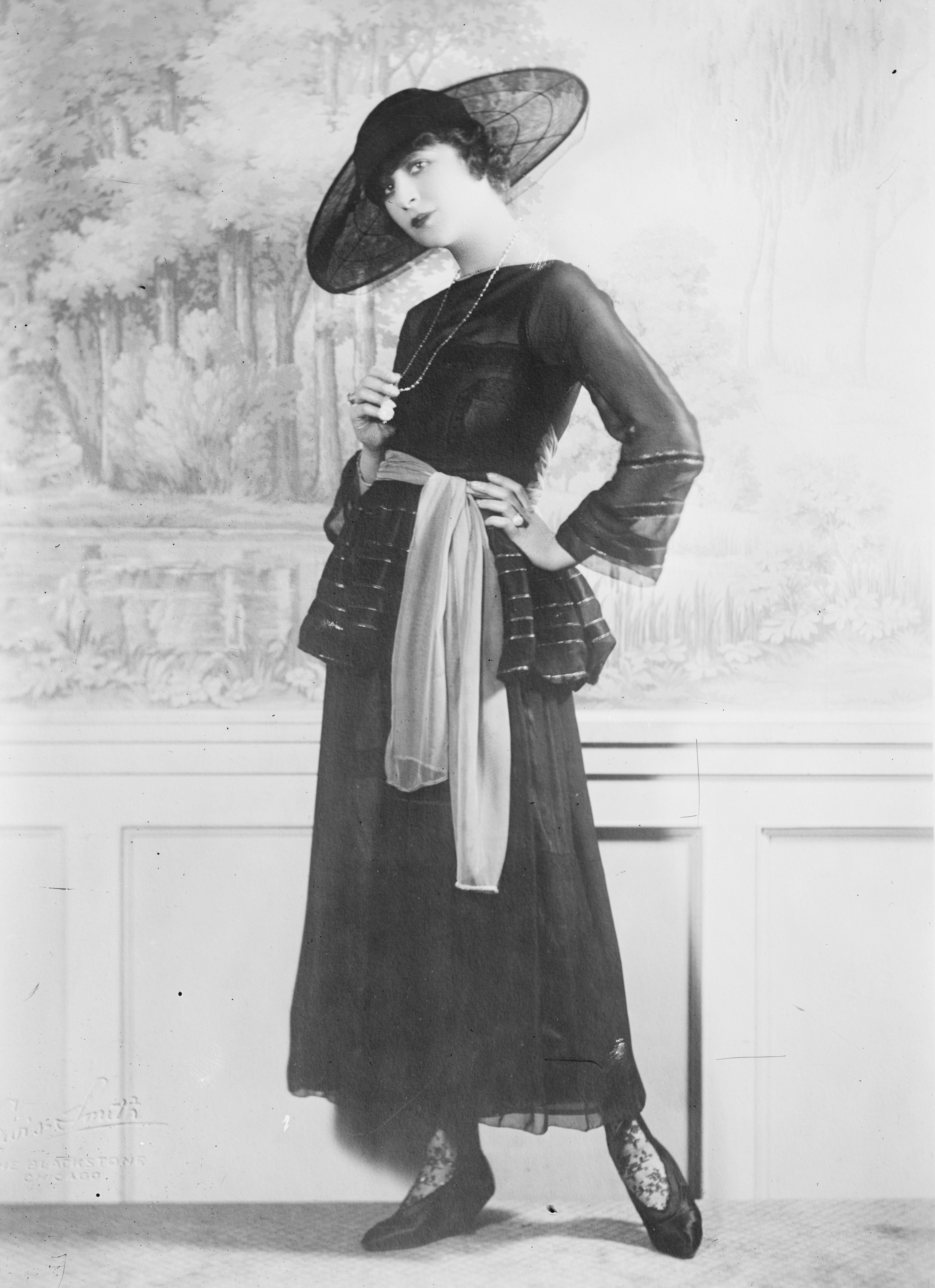 Fanny Brice. Photoportrait, standing, in fashionable dress and hat.